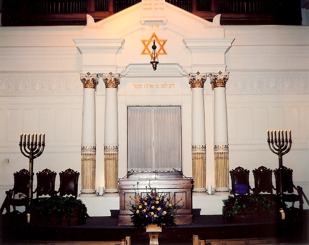 Sanctuary interior, Oakland's Temple Sinai